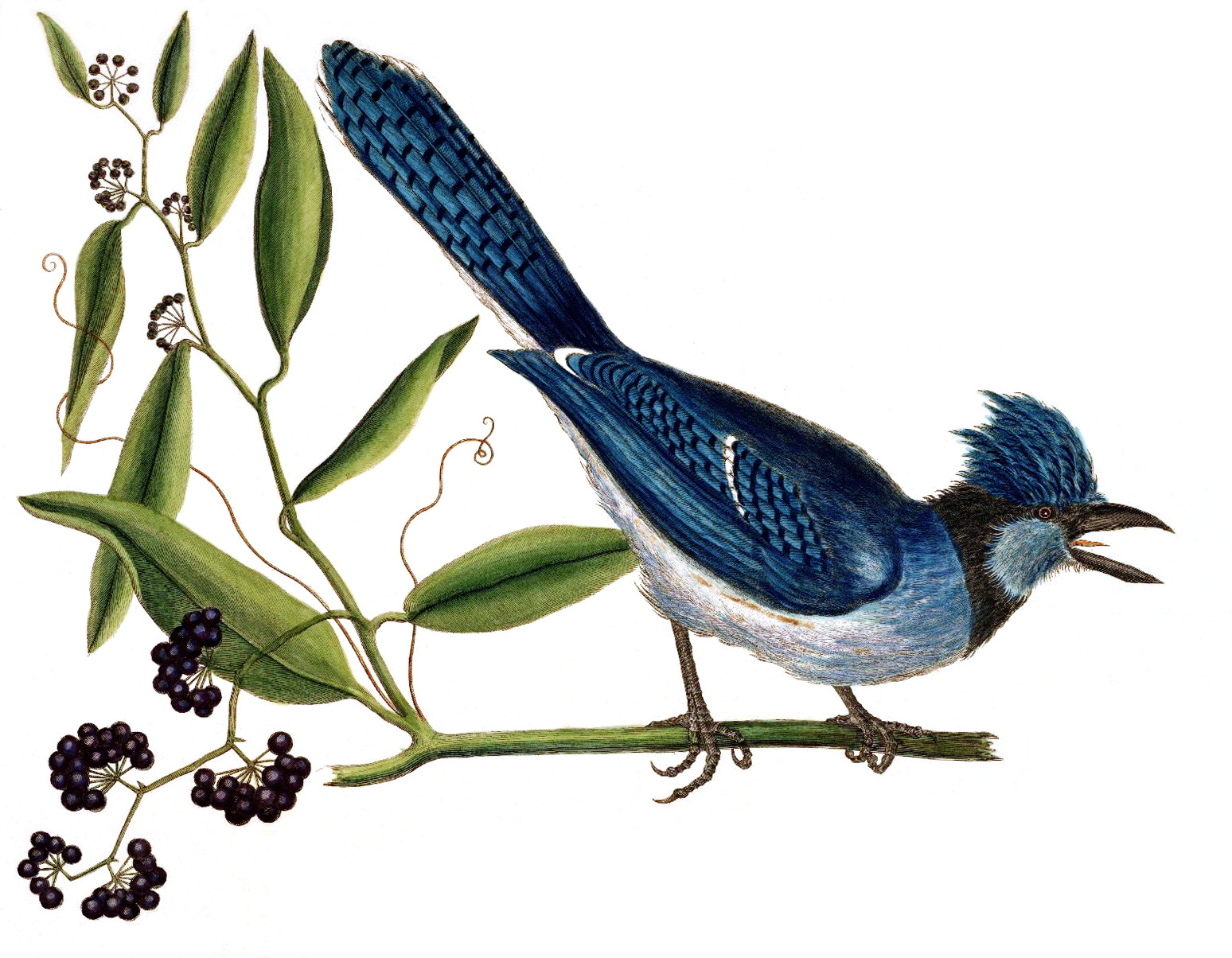 Blue Jay, Cyanocitta cristata and laurel greenbrier, Smilax laurifolia. Hand-colored engraving. Original caption (cropped off here) reads: Pica glandaria caerulea cristata: The Blue Jay; Smilax laevis Lauri folio baccis nigris: The Bay-Leaved Smilax